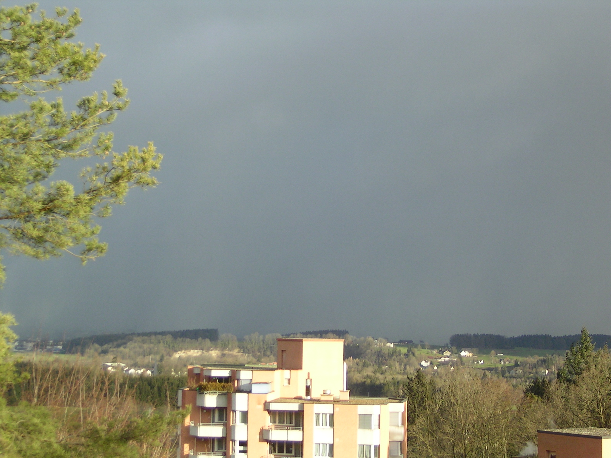 Splendid weather on other side of heavy snow shower and Ns